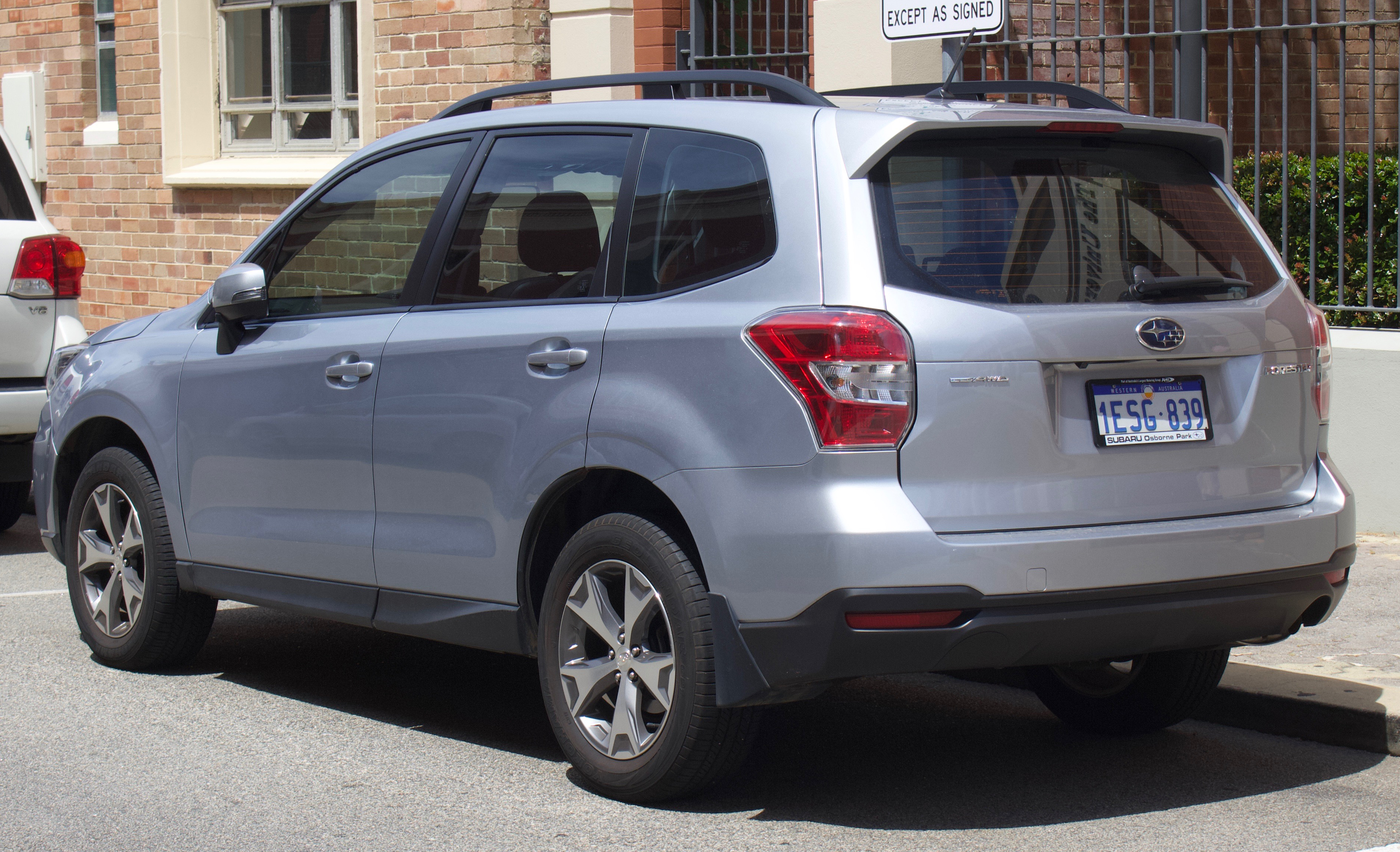 2015 Subaru Forester (MY15) 2.5i Luxury AWD wagon. Photographed in Fremantle, Western Australia, Australia.